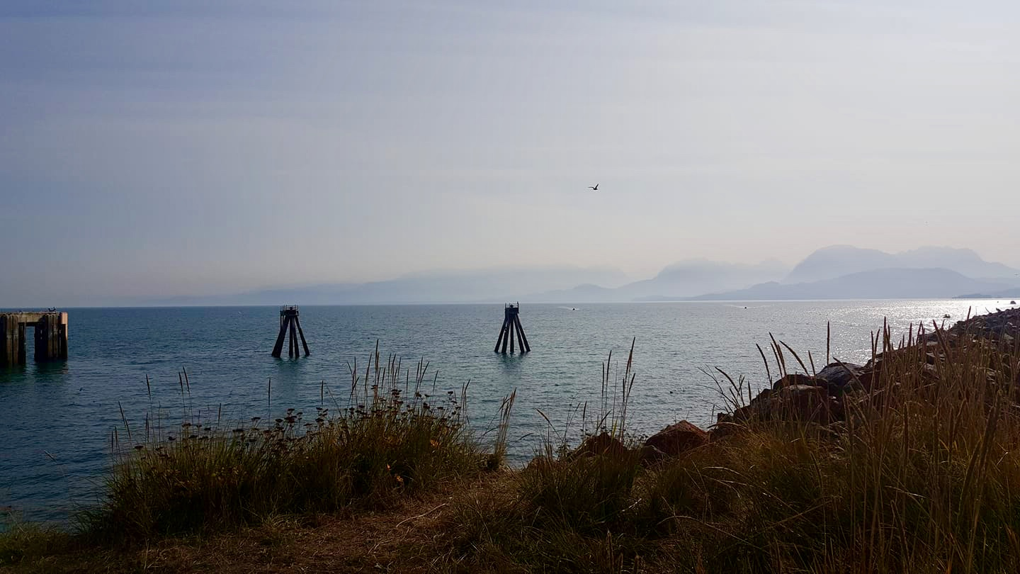 smoke from the Swan Lake fire seen in Kachemak Bay from the harbor mouth on the Homer Spit